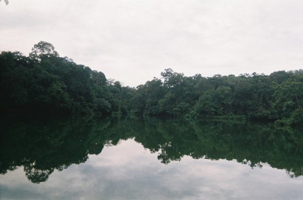 A view of Lower Peirce Reservoir in Singapore taken in late March 2008 from a trail by Upper Thomson Road.